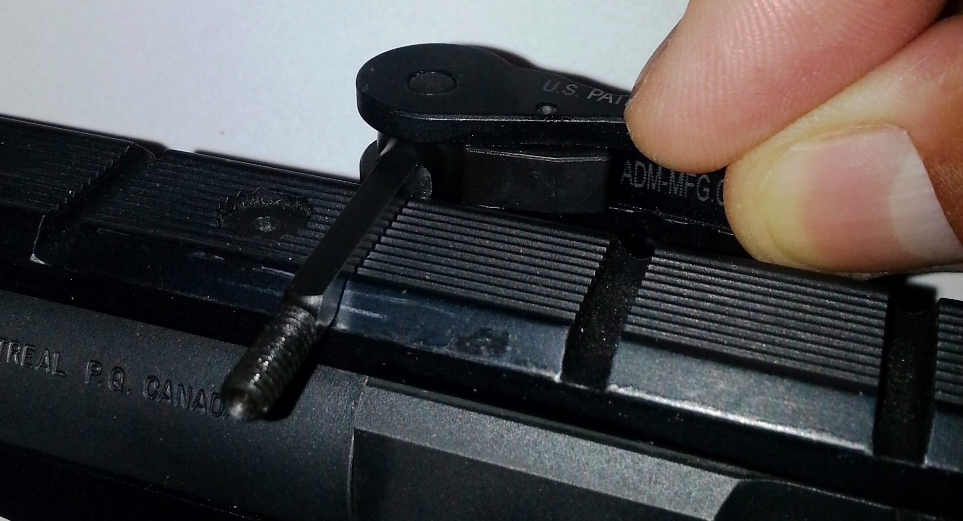 detail of weaver rail